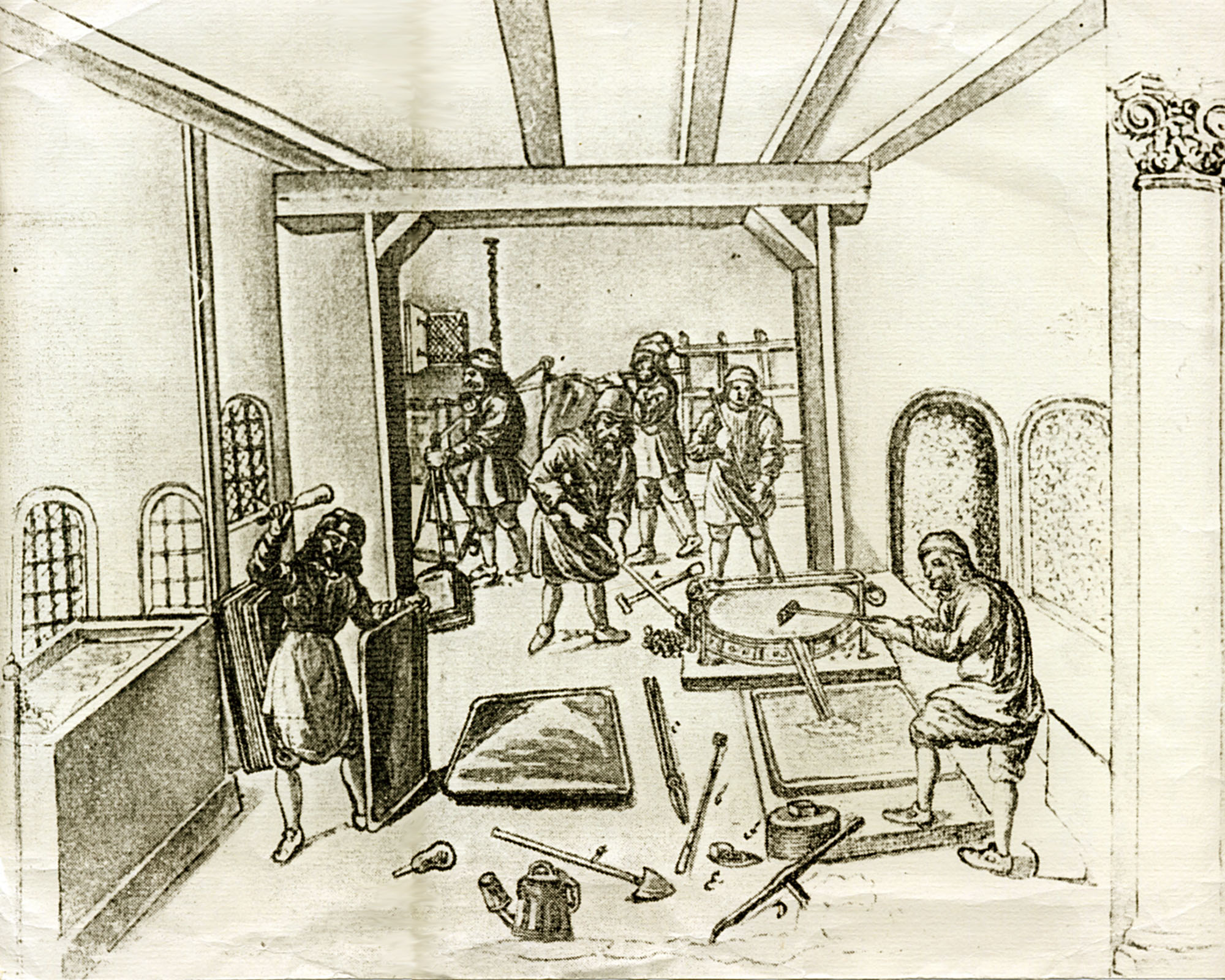 Forge of pans at the saltworks of Lüneburg (around 1700). In Lüneburg, the forge was called "Bare". Source: L.A.Gebhardi, Collectanea, Tl. 13, S. 546.